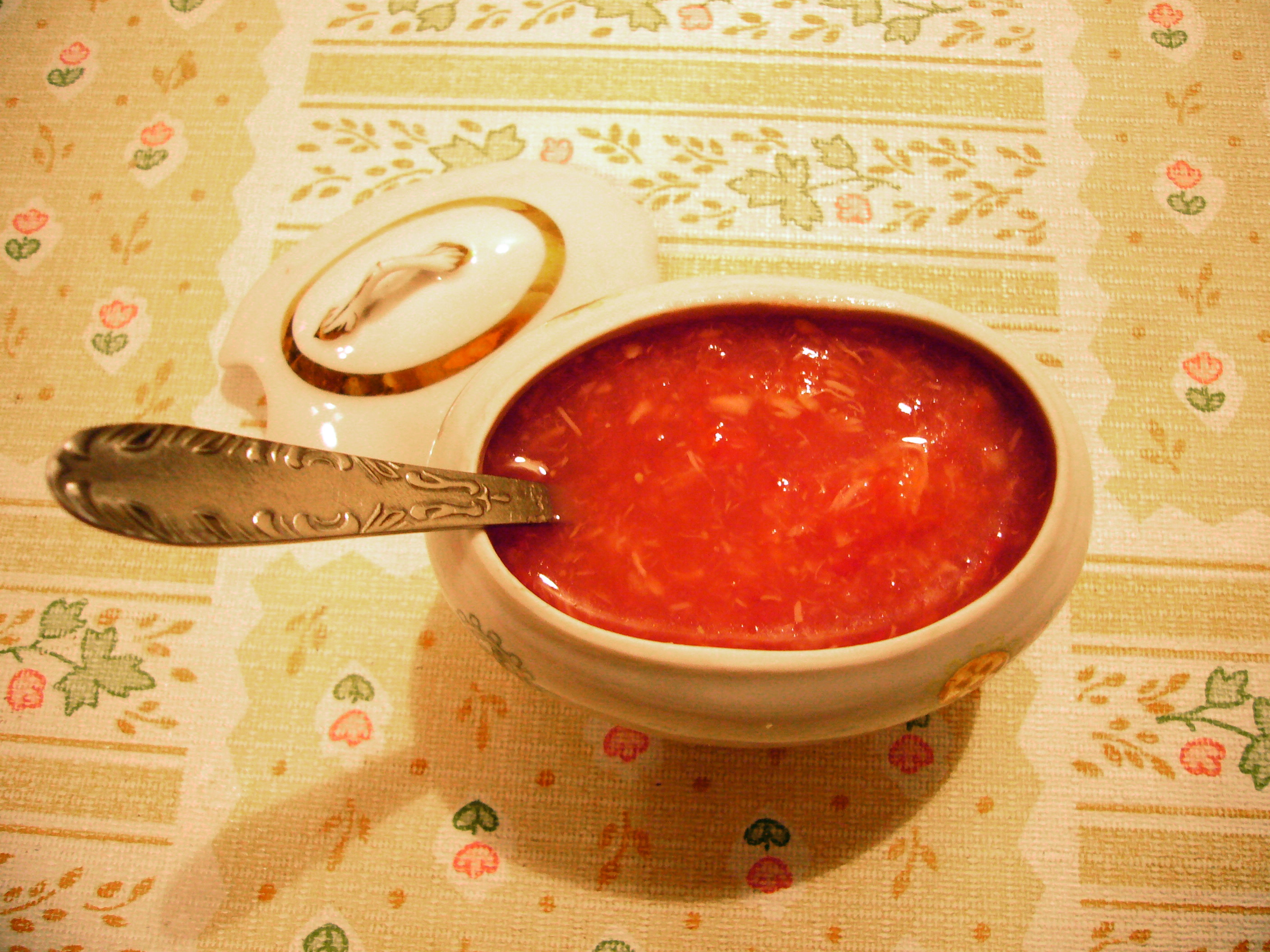 Khrenovina, a traditional Siberian sauce, made of tomatoes, garlic and horseradish, Novokuznetsk, Russia